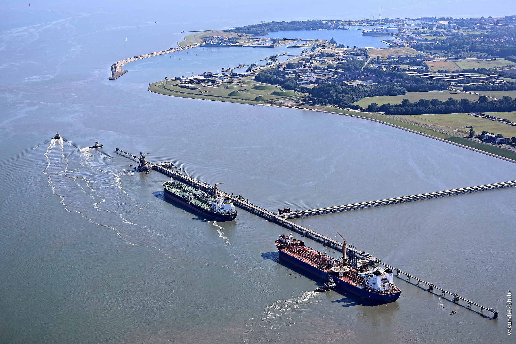 In the oil harbor of Wilhelmshaven two ships expect deloading (Aerial)